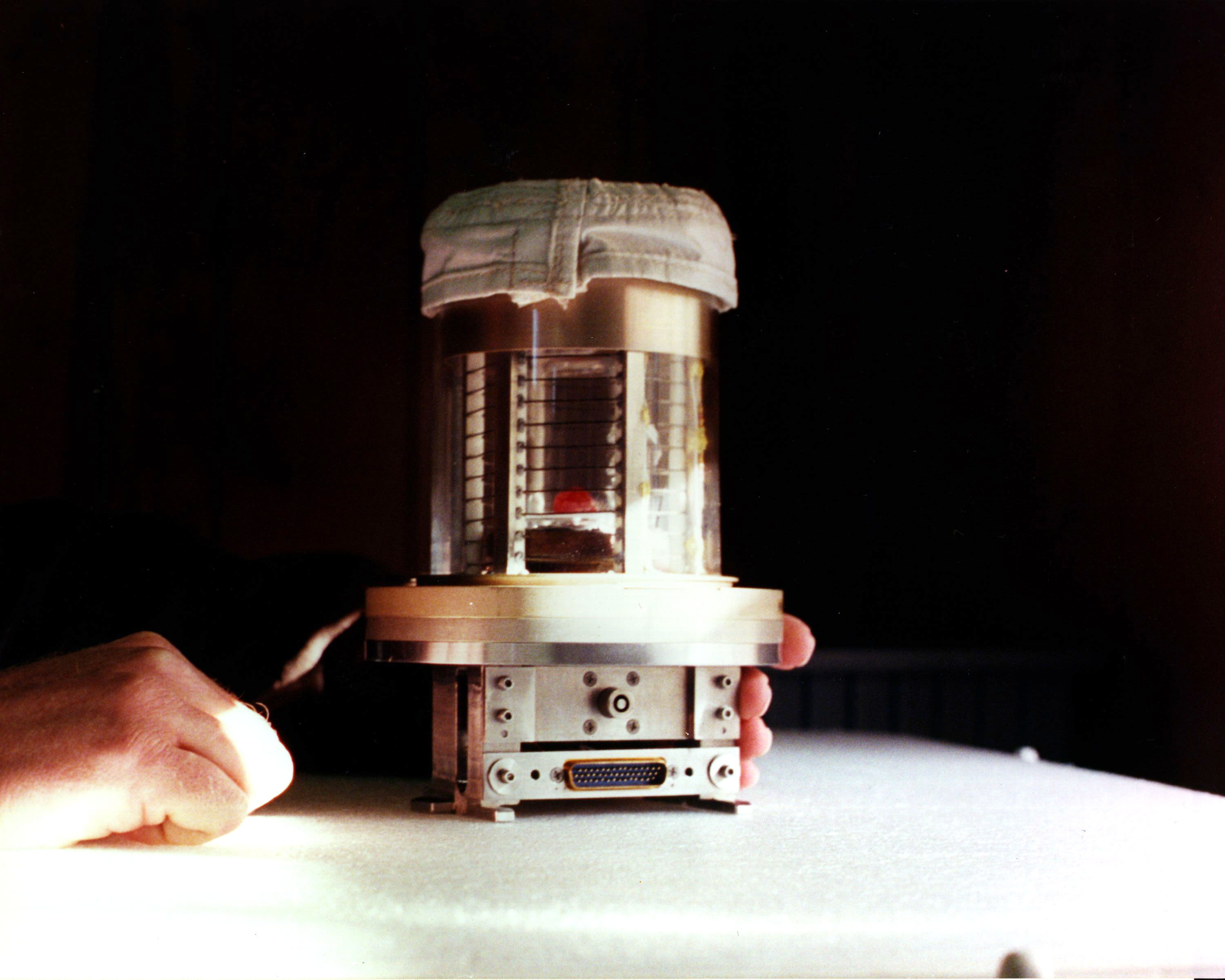 Overall view of the Vapor Crystal Growth System (VCGS) Furnace. Used on IML-1 International Microgravity Laboratory Spacelab 3. Principal Investigator and Payload Specialist was Lodewijk van den Berg.